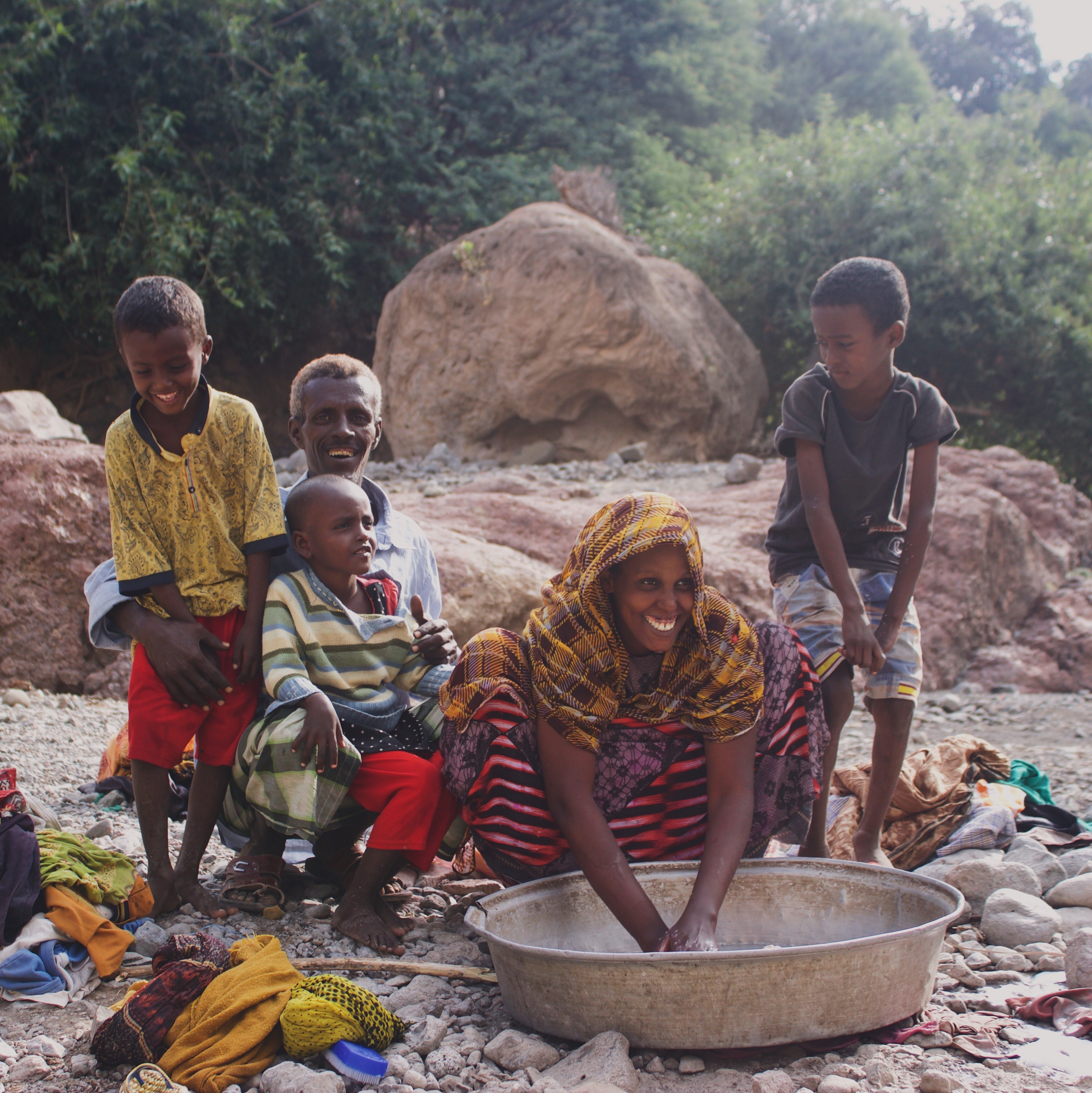 I can say that this family is the lackiest and the richest comparing all that I have seen in Banqualè. Head of this family works by guide. Tourists come there to see the life of local people . Guide ,whom name is Ahmad, shows tourists school located near the Banqualé and big garden that they have . Ahmad has this job due to his knowledge of French. But despite of that « reachness » , his wife has to work hard too . She has three children, being mother is the hardest work . Every morning she walks about 1.5 kilometers with large bags to the small source of water to wash clothes , her small daughter helps her. Also , she has to wash all the dishes after more than 50 tourists three times a day. It isn’t all of her duties , but even these don't seem easy. This is an image of "African people at work" from Djibouti